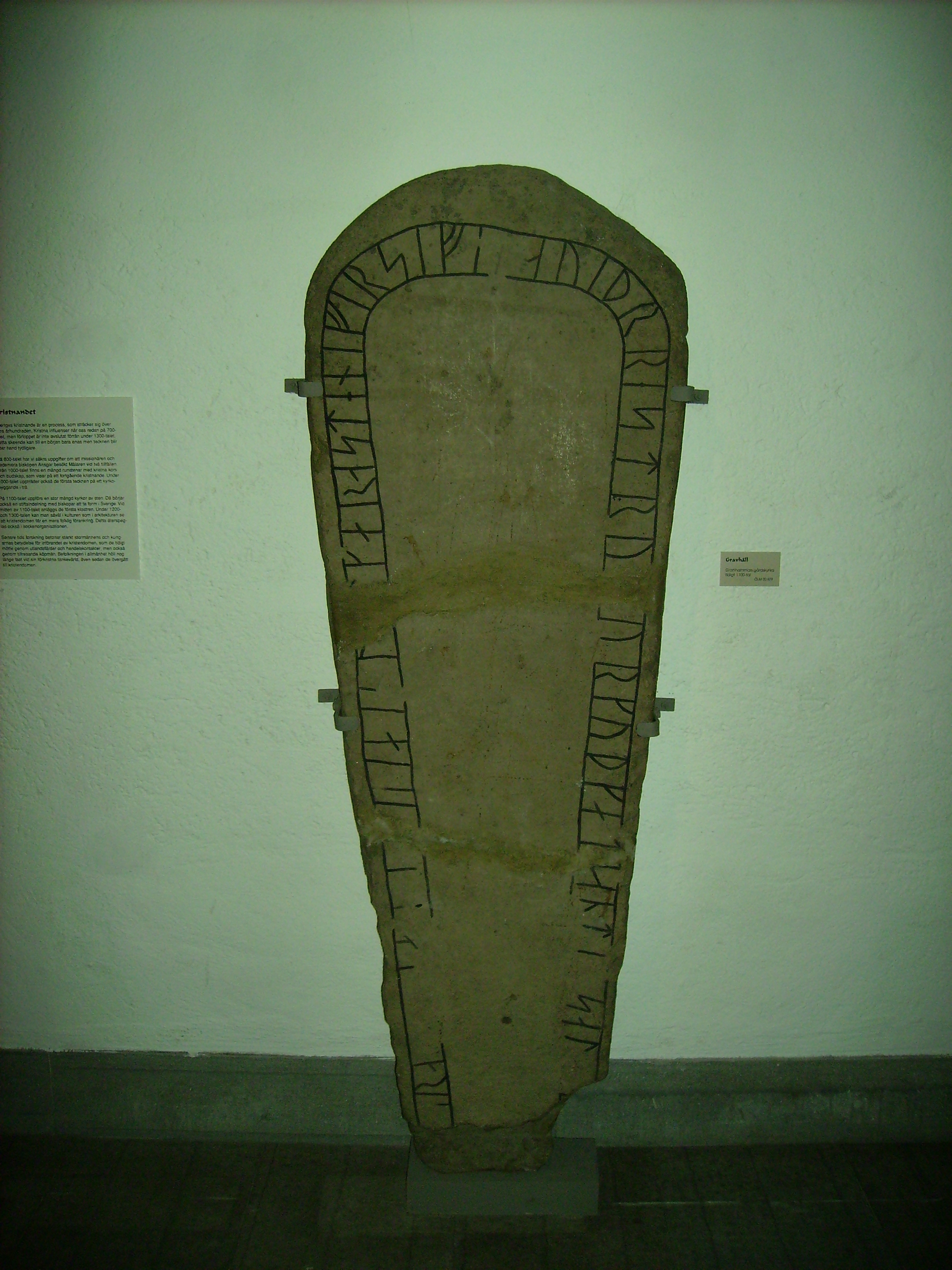 Rune stone from Granhammar, Närke, Sweden.